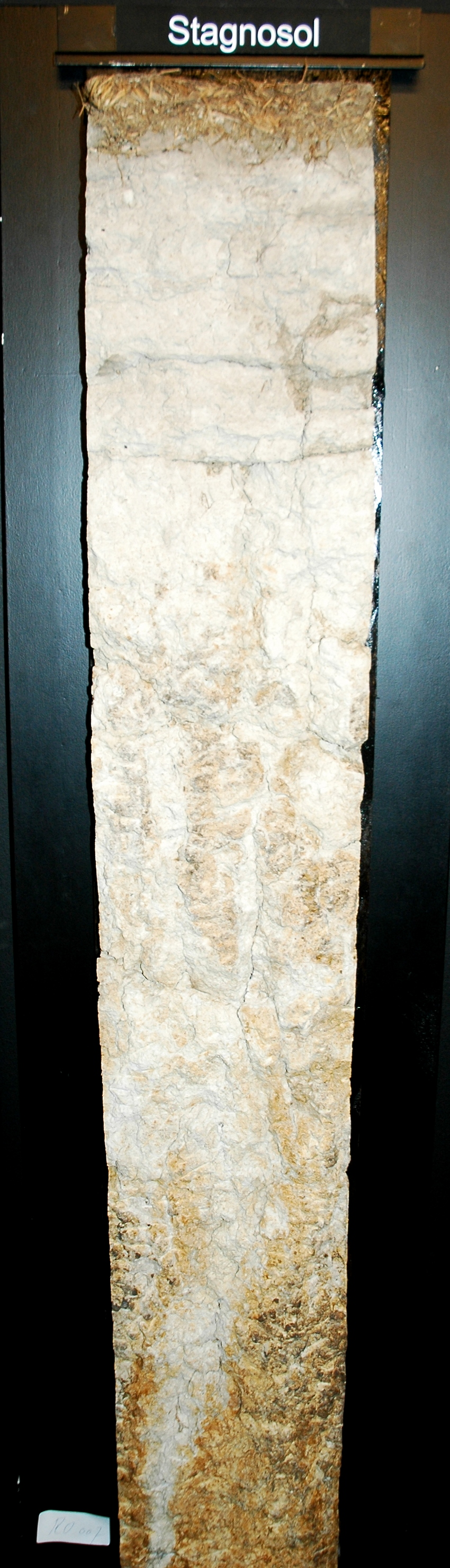 Soil profile of a Stagnosol